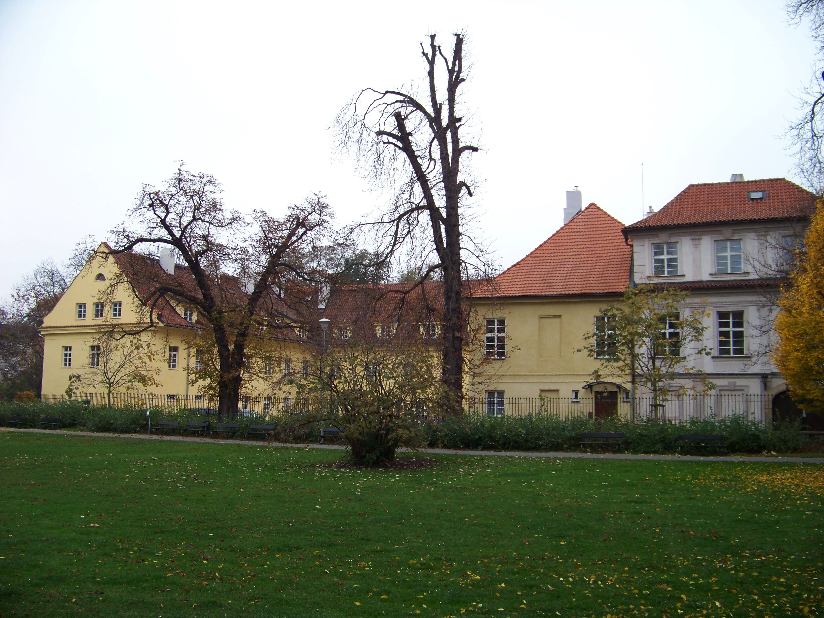 Prague-Malá Strana, the Czech Republic. Nosticova 468/4 and 469/6.